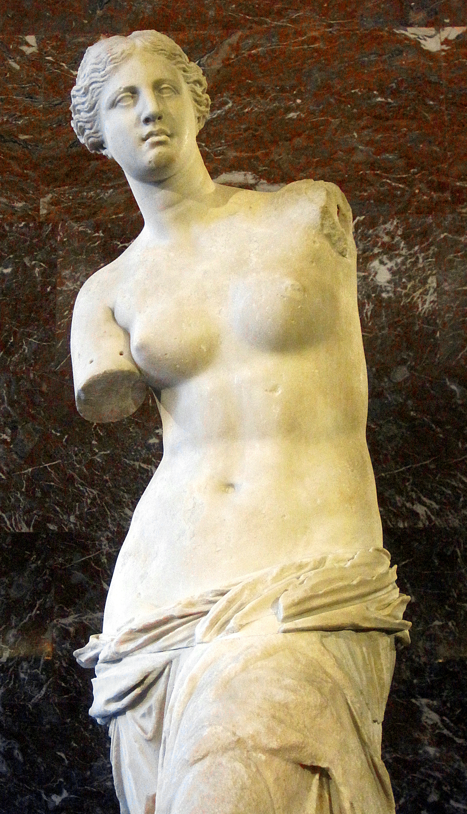 Venus de Milo (6 ft. 7 ½ in.) marble work from Paros from Mélos (Milos), made by an unknown author around 130-100 BC. AD, having been part of the collection of King Louis XVIII in 1821, kept at the Louvre museum in Paris (Ref: Ma 399) and photographed there on December 09, 2011.